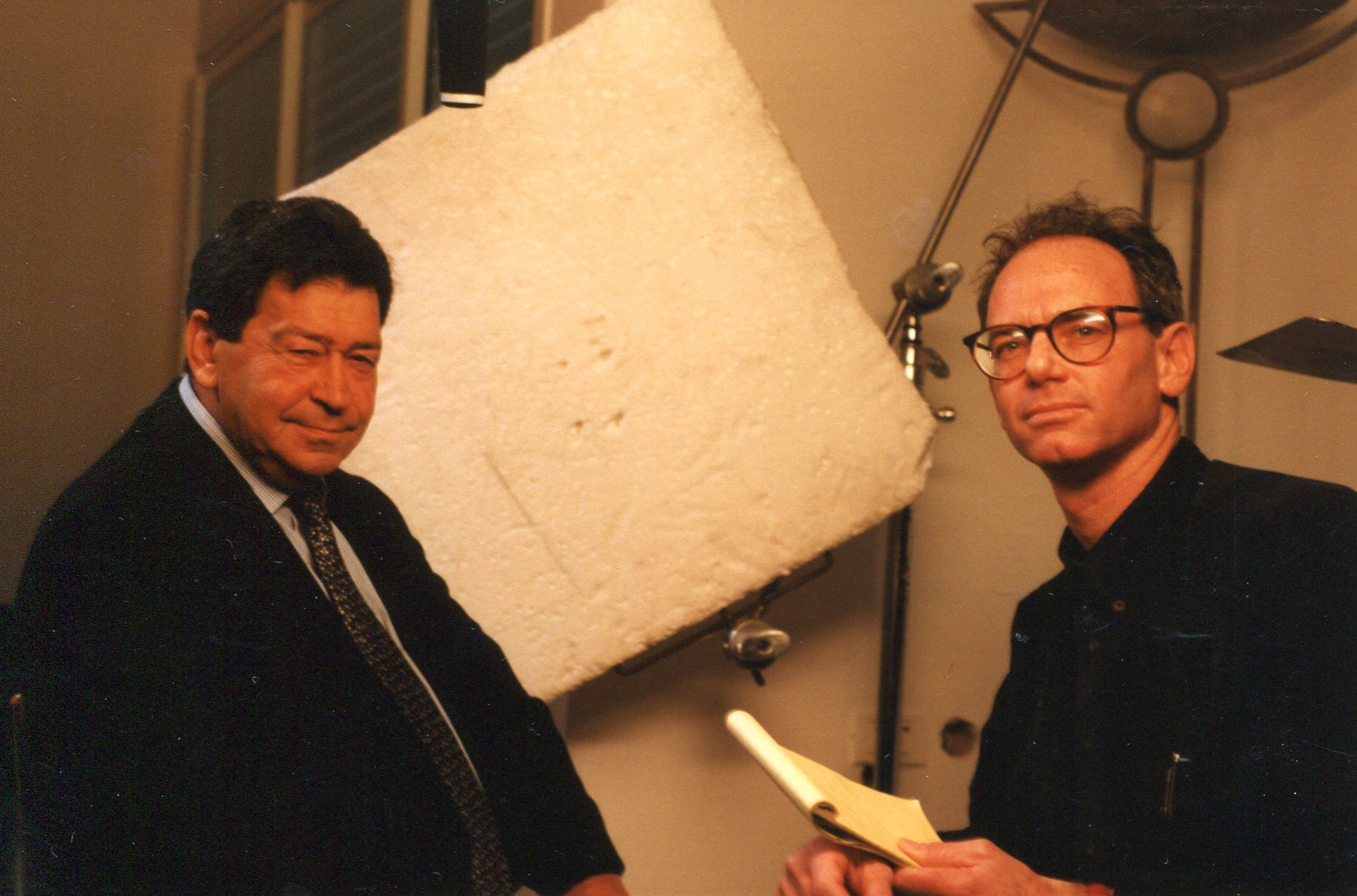 Ahron Bregman and Binyamin Ben-Eliezer, 1997